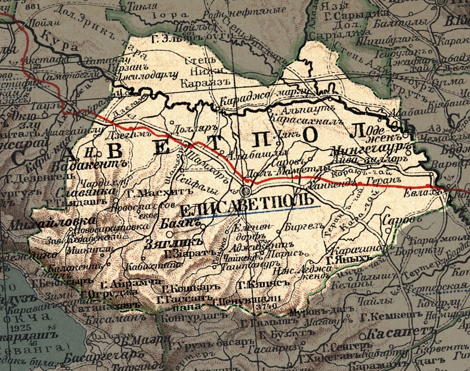 A highlighted map from 1903 of the Elisabethpol uyezd within the Elisabethpol governorate.